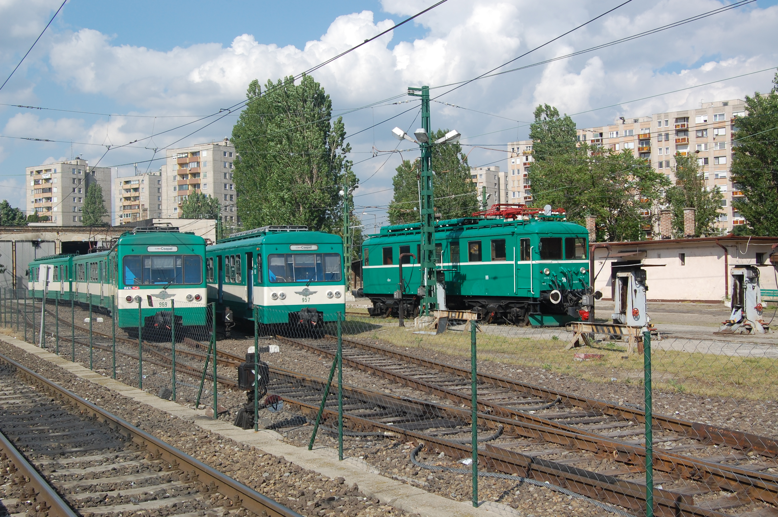 Two type MXA HÉV EMU and a Type LVII "Tiger" locomotive in Csepel garaga